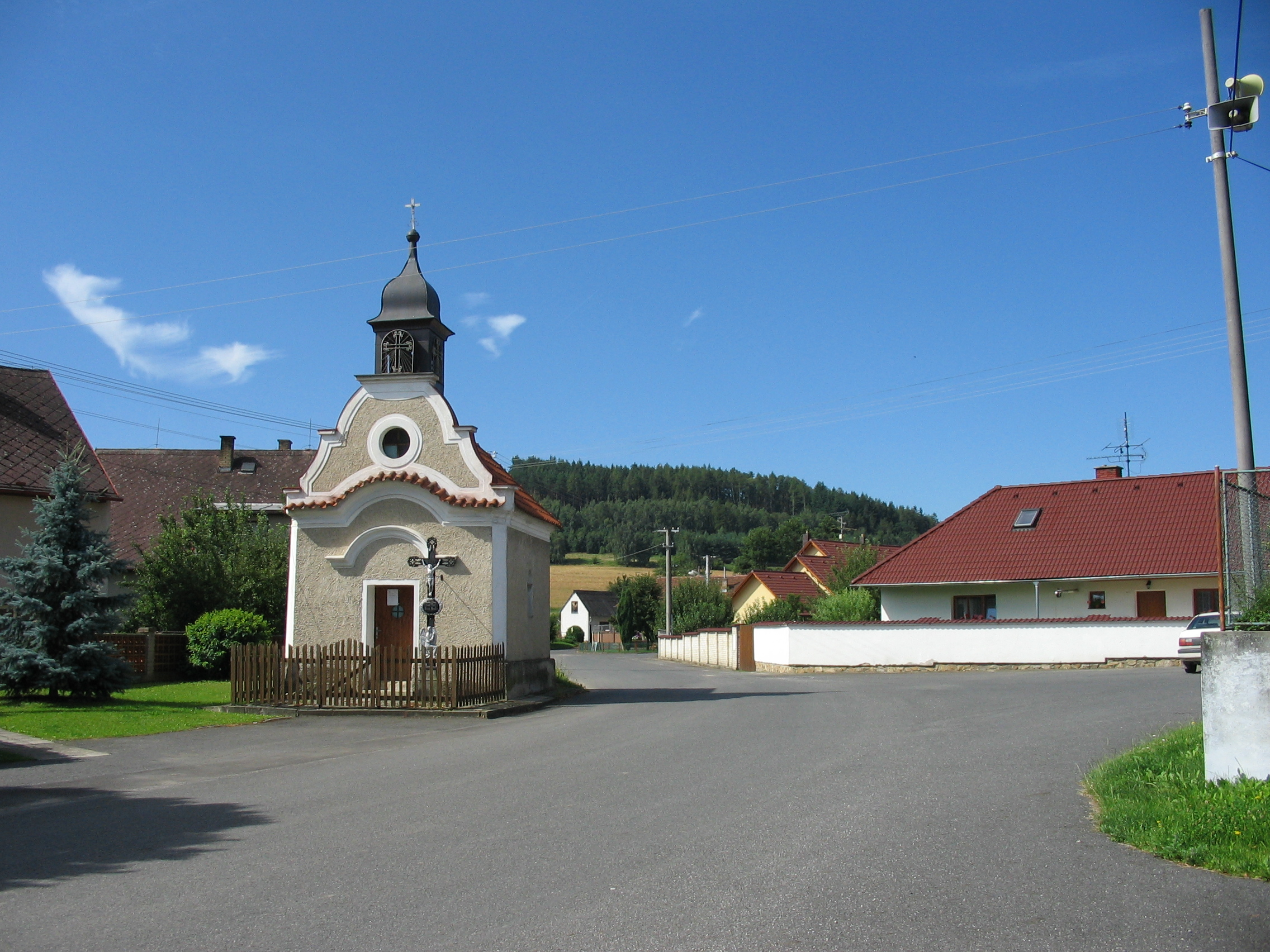 Village square with chapel in Drachkov, Strakonice District, Czech Republic